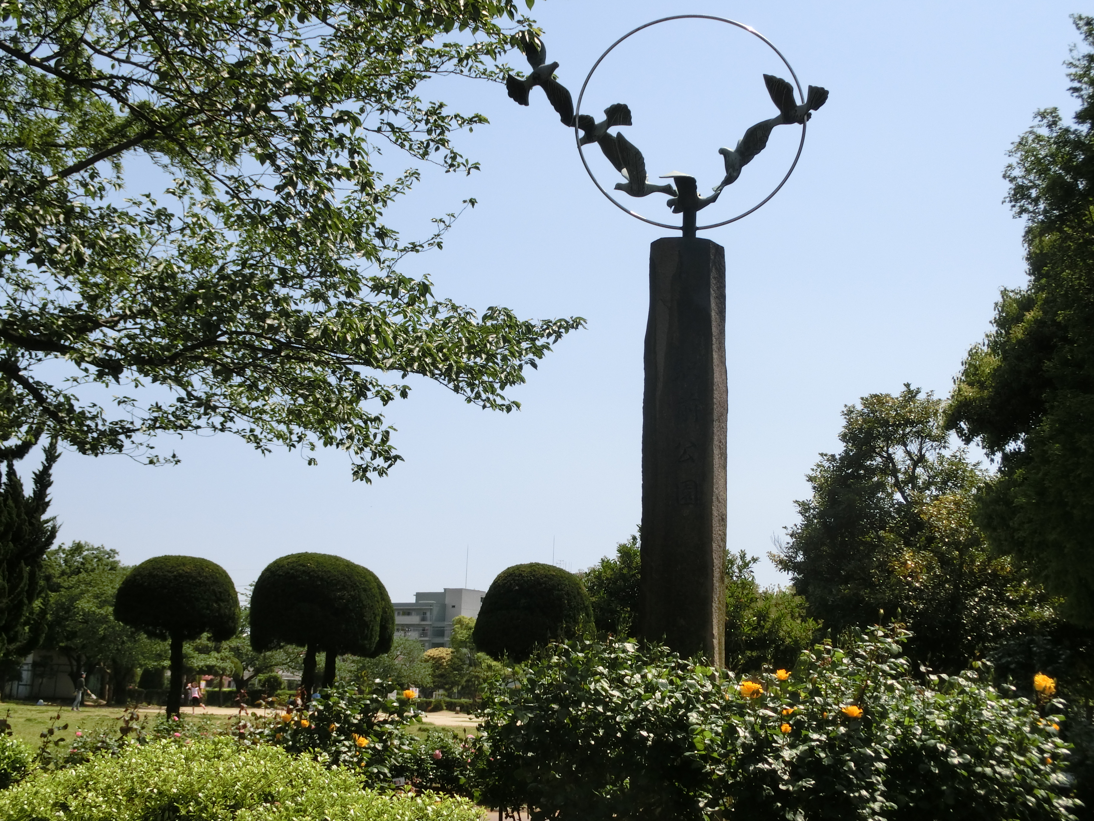 Gyotoku-Ekimae Park